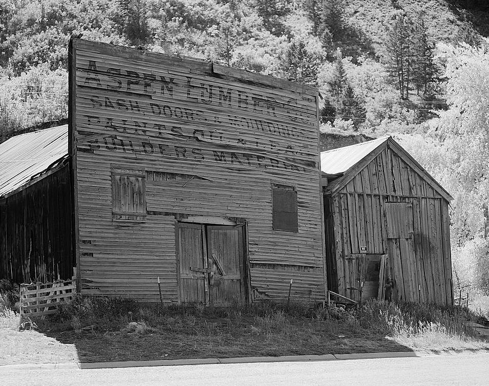 Aspen Lumber Company Building, built circa 1882. 100 West Cooper Street, Aspen, Pitkin County, Colorado. Historic American Buildings Survey photo.